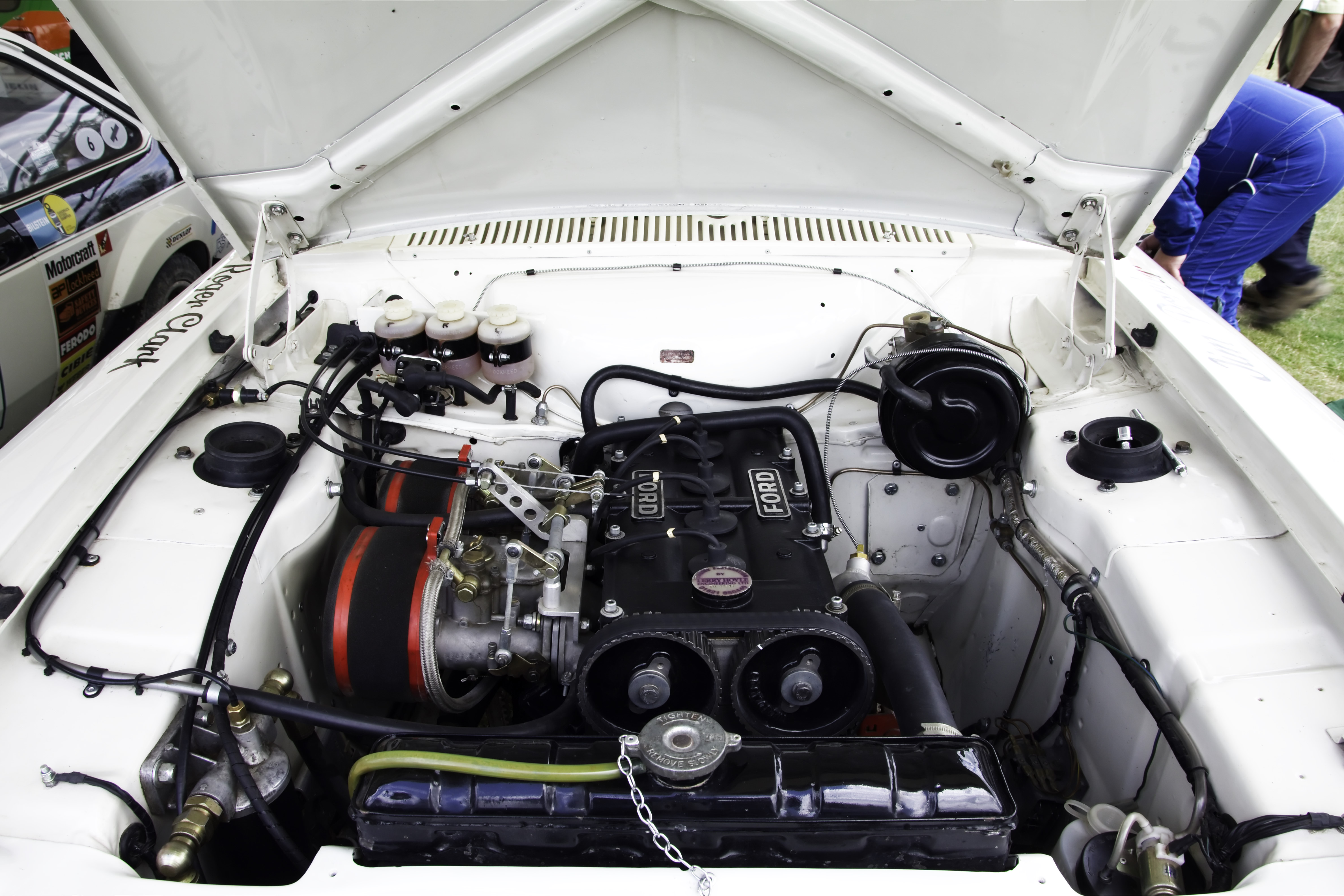 Ford BDA Twin cam in an Escort RS1600